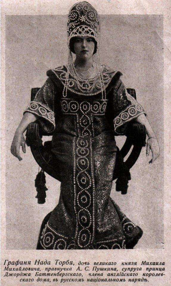 Nada de Torby, marchioness Milford Haven